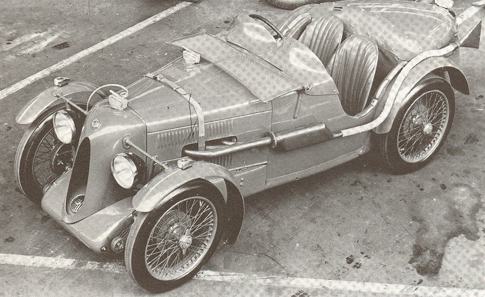 1931 MG C-type (Montlhery)